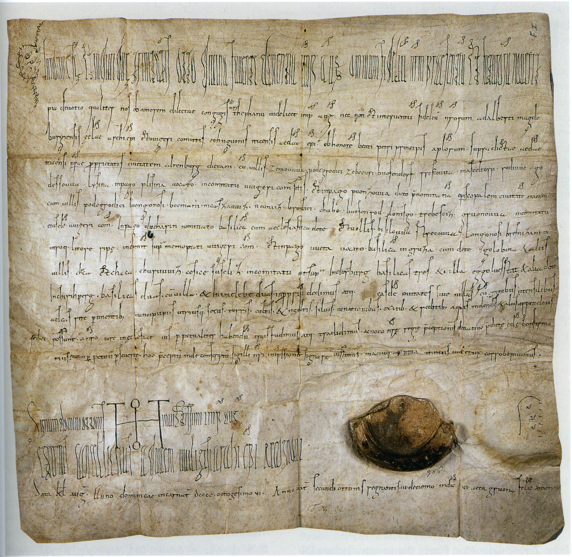 A charter of emperor Otto II for the bishop of Zeitz. Naumburg, Domstiftsarchiv, Nr. 1.